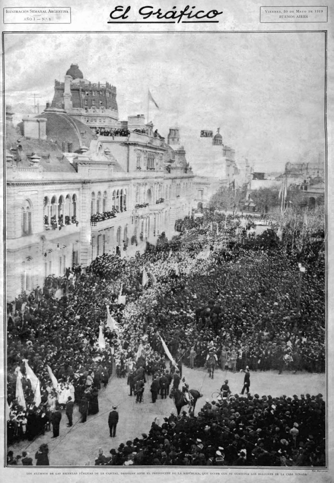 Cover to El Gráfico #1. Caption says: "Students of public schools in Capital Federal come before the president of the Argentine Republic".